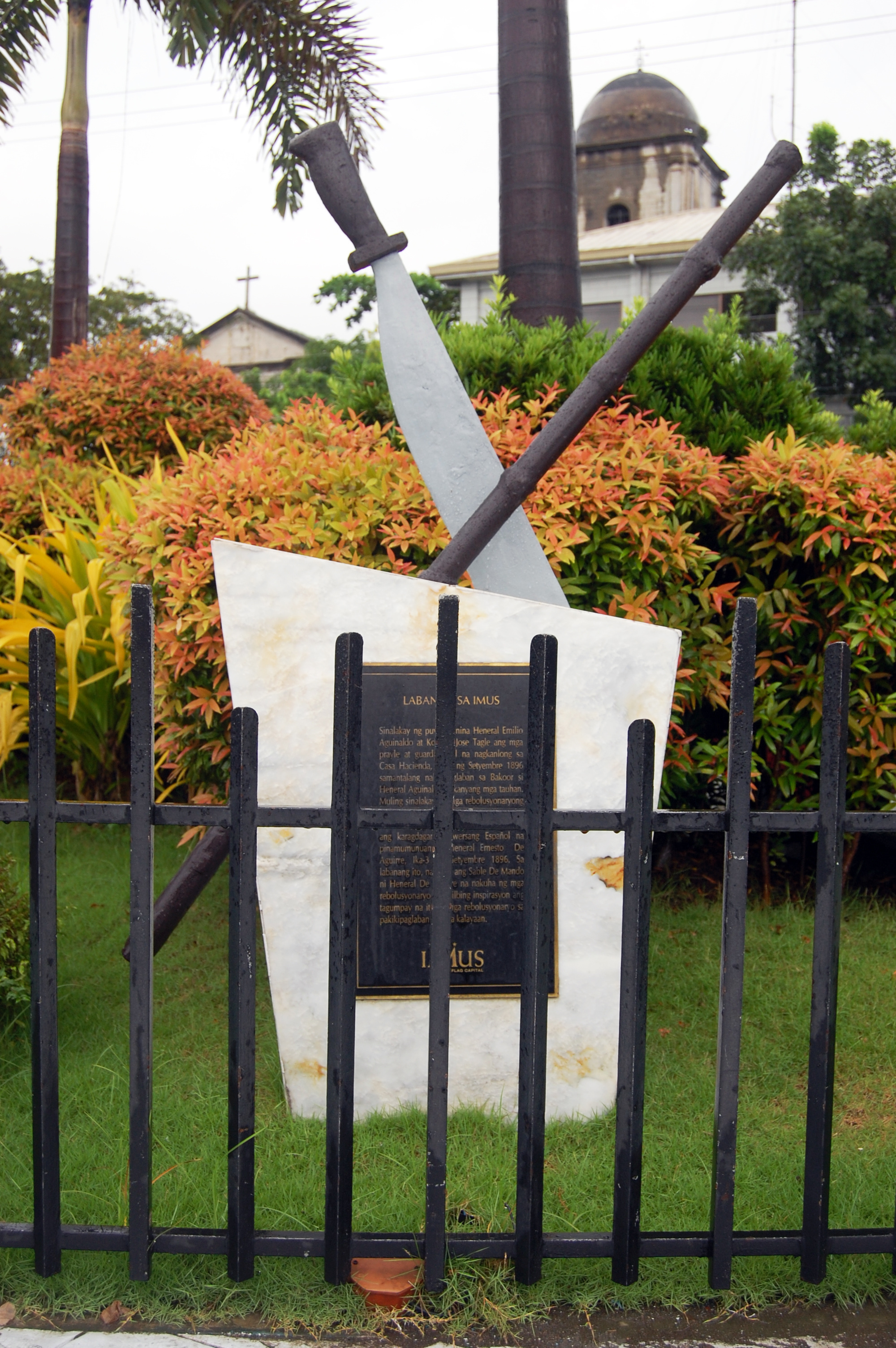 this the place were gen. Aguinaldo., fight the spanish soldier